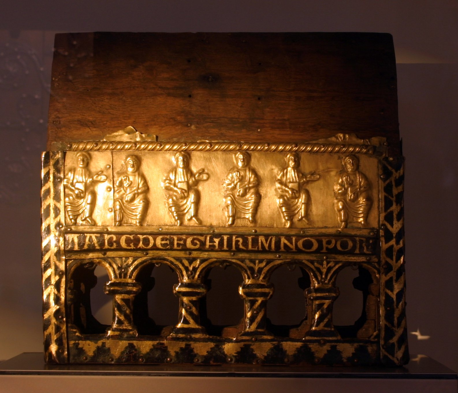 MOTIV: Relivieskrin med alfabet PERIODE: ca. 1225 FUNNSTAD: Fortun stavkyrkje KOMMUNE: Luster ENGLISH: Relic box with the alphabet from around 1225 A.D., found in Fortun stave church, Luster, Western Norway: Exhibited at Bergen museum. (Photographed behind glass).